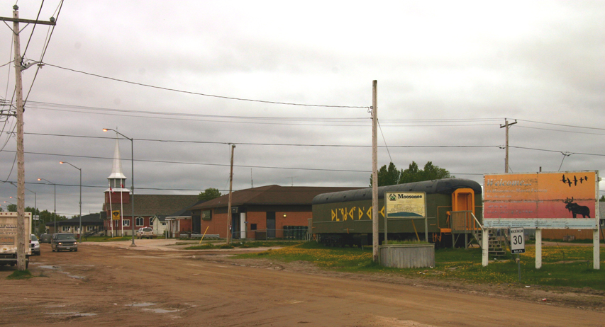 Main road in Moosonee, Cochrane District, Ontario.